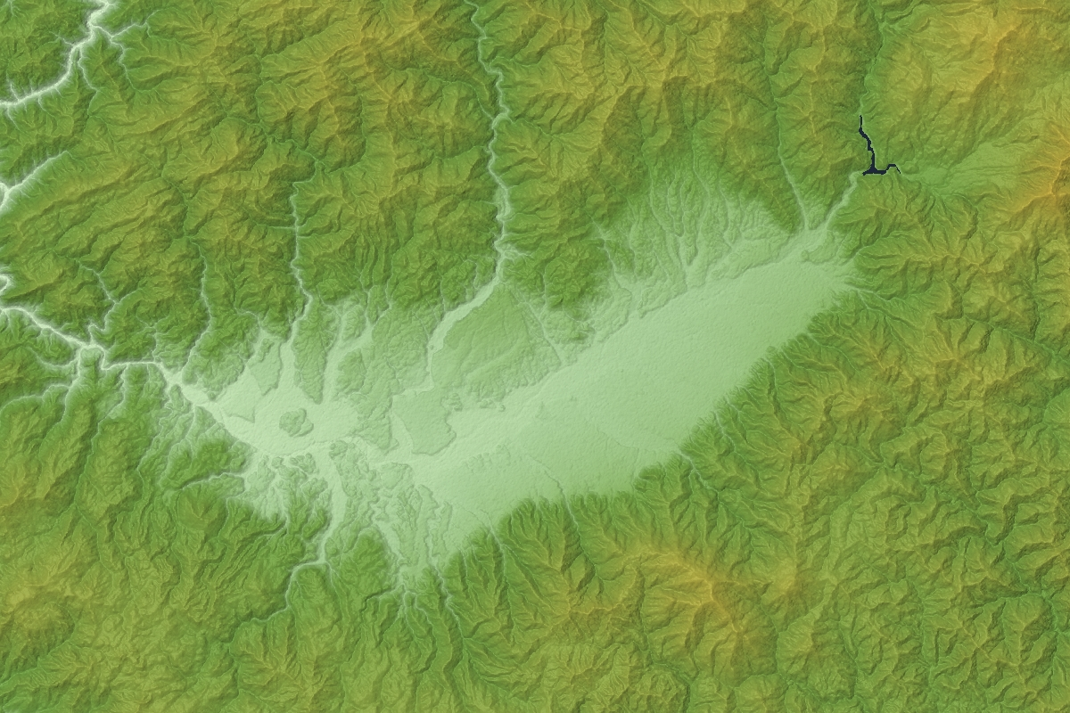 Hitoyoshi Basin in Kumamoto Prefecture, Kyushu, Japan.